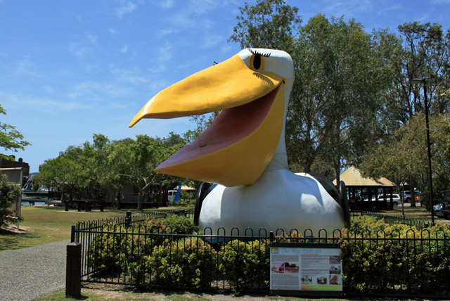 Big Pelican in Tewantin, Queensland, Australia